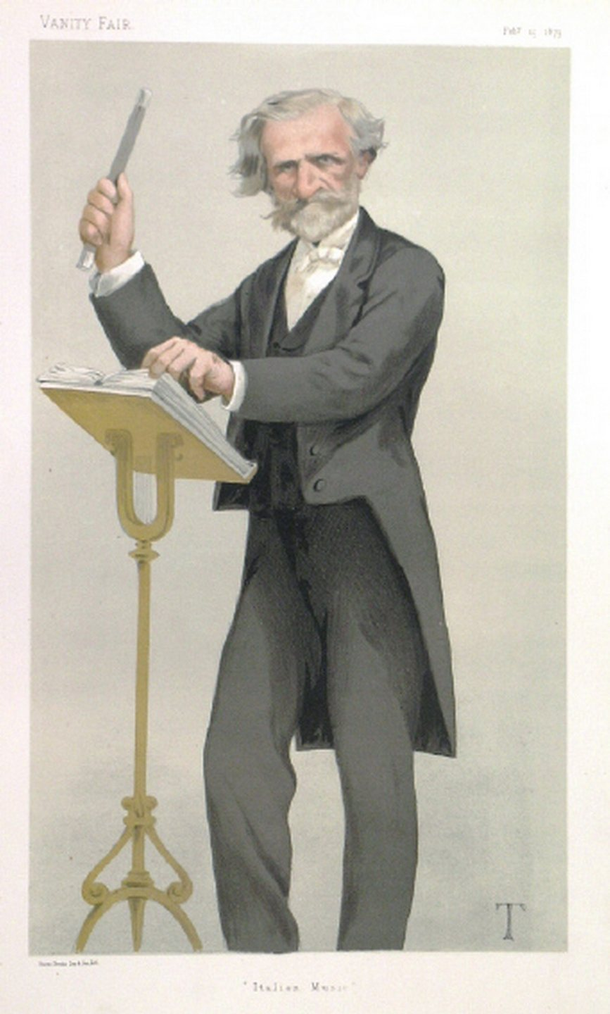 Caricature of Giuseppe Verdi (1813-1901). Caption reads "Italian Music". Overall size c.8x14inches.